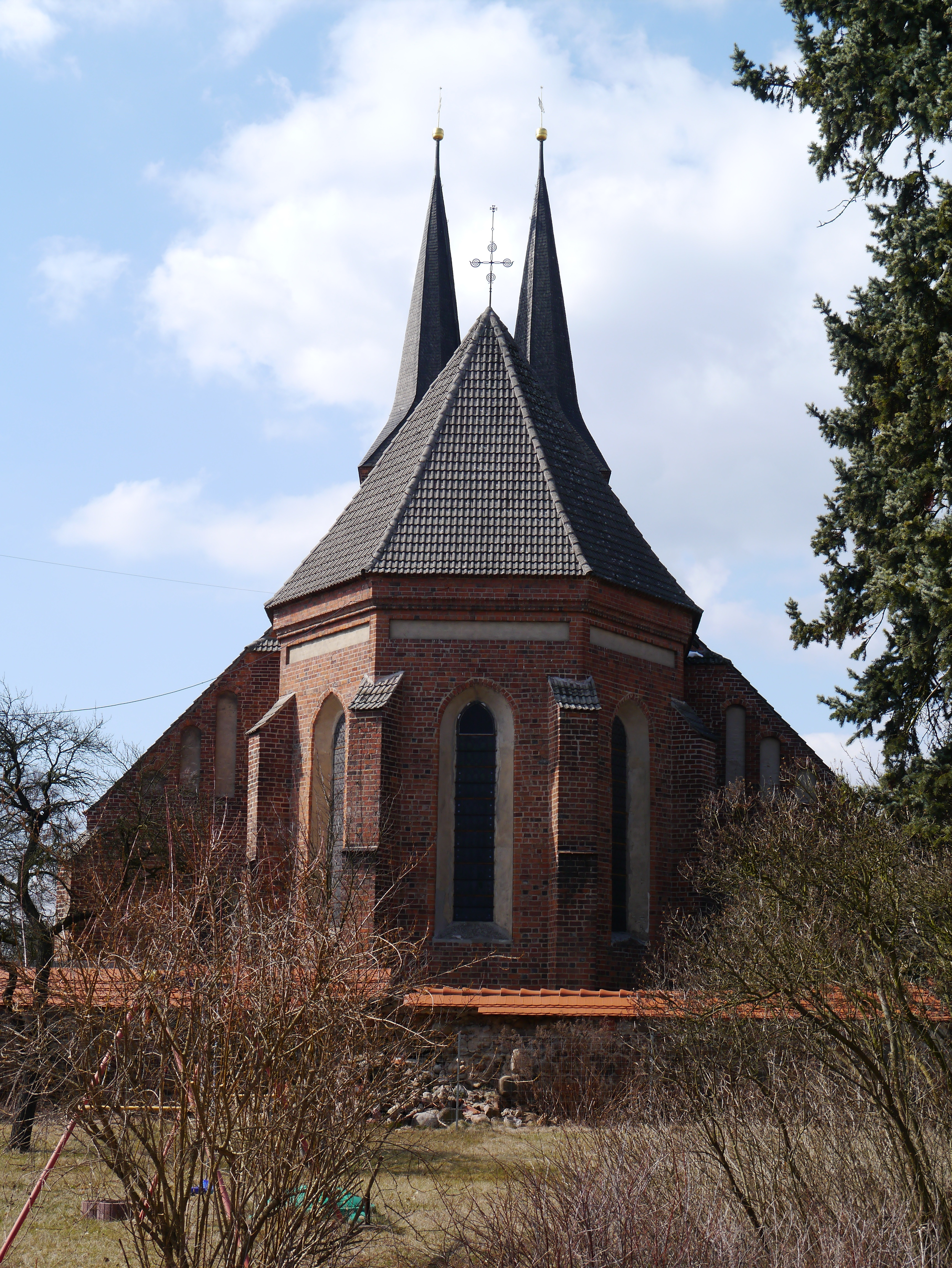 Lutheran church St. Nikolai of Doberlug-Kirchhain, Brandenburg; district Kirchhain.